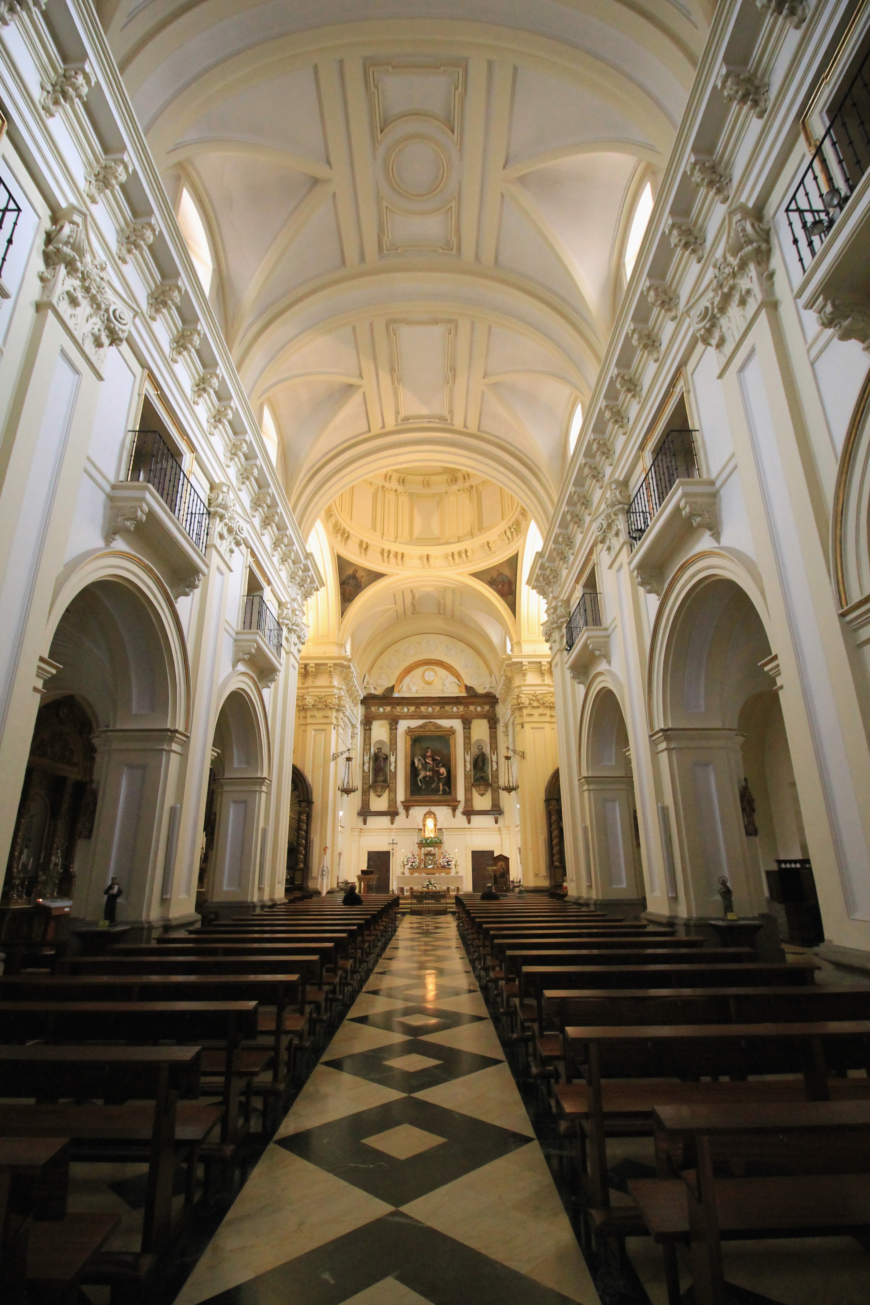 Interior of St. Martin of Tours' Church in Madrid (Spain).